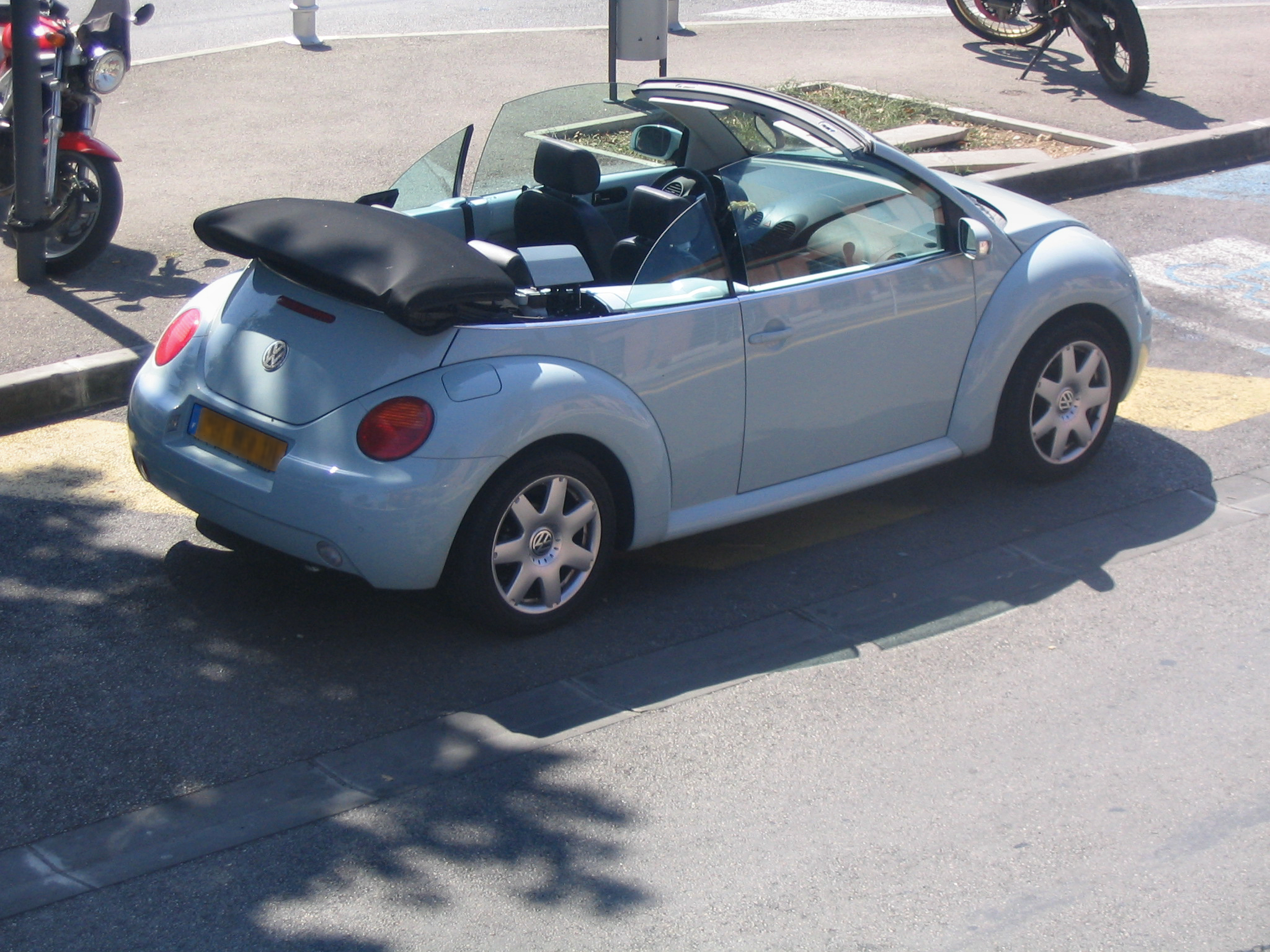 2005 Volkswagen New Beetle Cabrio seen at Antibes station , France.